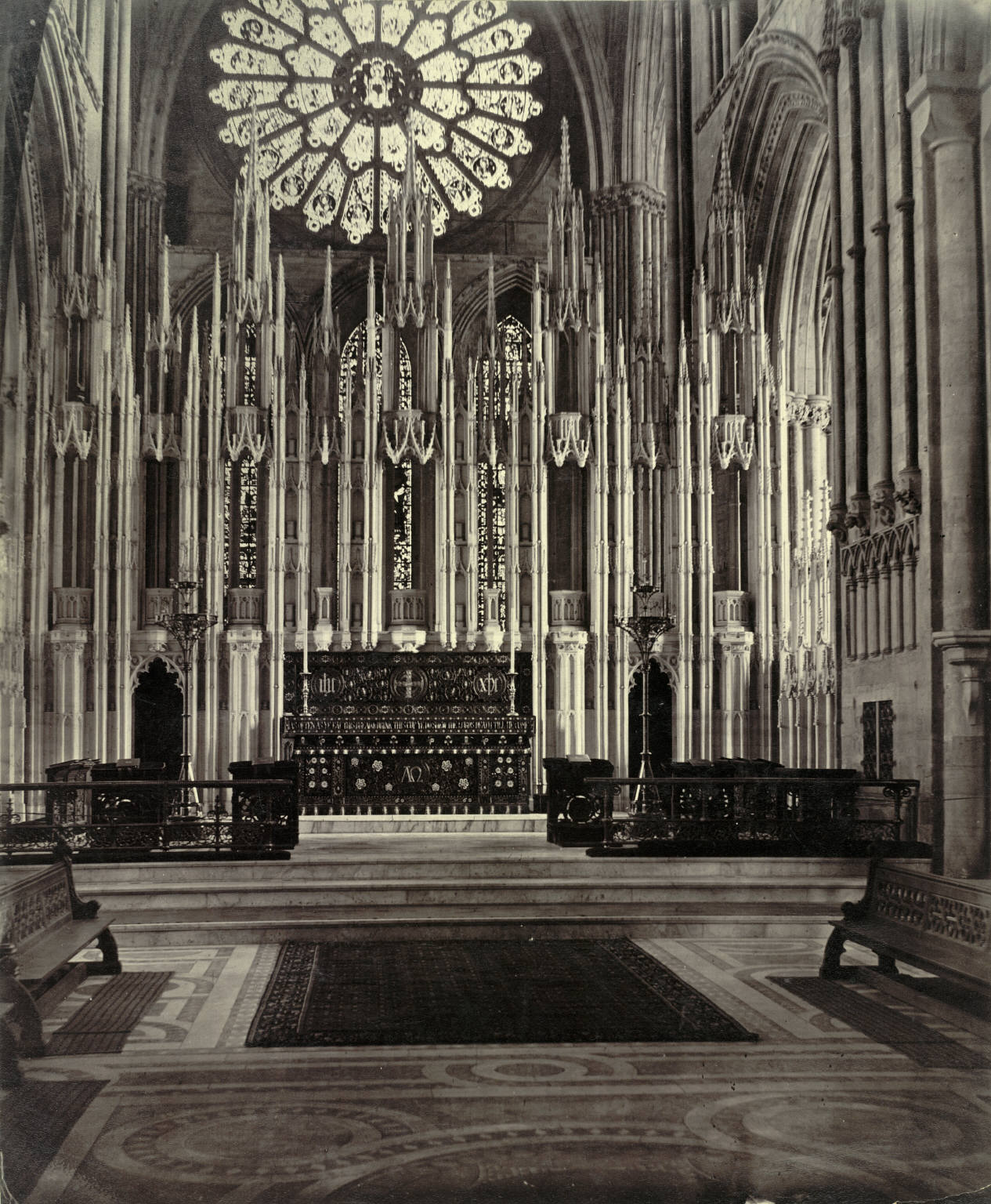 Collection: A. D. White Architectural Photographs, Cornell University Library Accession Number: 15/5/3090.01032 Title: Durham Cathedral, High Altar and Neville Screen Architect: Henry Yeveley (English, 1325-1400) Building Date: 1093-1128 Screen date: 1380 Photograph date: ca. 1865-ca. 1895 Location: Europe: United Kingdom; Durham Materials: albumen print Image: 11 5/8 x 9 1/2 in.; 29.5275 x 24.13 cm Provenance: Gift of Andrew Dickson White Persistent URI: There are no known copyright restrictions on this image. The digital file is owned by the Cornell University Library which is making it freely available with the request that, when possible, the Library be credited as its source. We had some help with the geocoding from Web Services by Yahoo! This image is from the Cornell University Library's The Commons Flickr stream. The Library has determined that there are no known copyright restrictions. This image was taken from Flickr's The Commons. The uploading organization may have various reasons for determining that no known copyright restrictions exist, such as: The copyright is in the public domain because it has expired; The copyright was injected into the public domain for other reasons, such as failure to adhere to required formalities or conditions; The institution owns the copyright but is not interested in exercising control; or The institution has legal rights sufficient to authorize others to use the work without restrictions. More information can be found at Please add additional copyright tags to this image if more specific information about copyright status can be determined. See Commons:Licensing for more information. No known copyright restrictionsNo restrictions